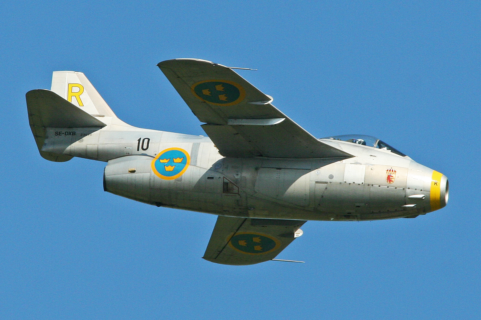 Operated by the Swedish Air Force Historic Flight, and making it's first UK airshow appearance, this may actually have been the first ever display by the type in the UK. Carries F10 unit markings. c/n 29-670. 2013 Waddington Airshow. 6-7-2013